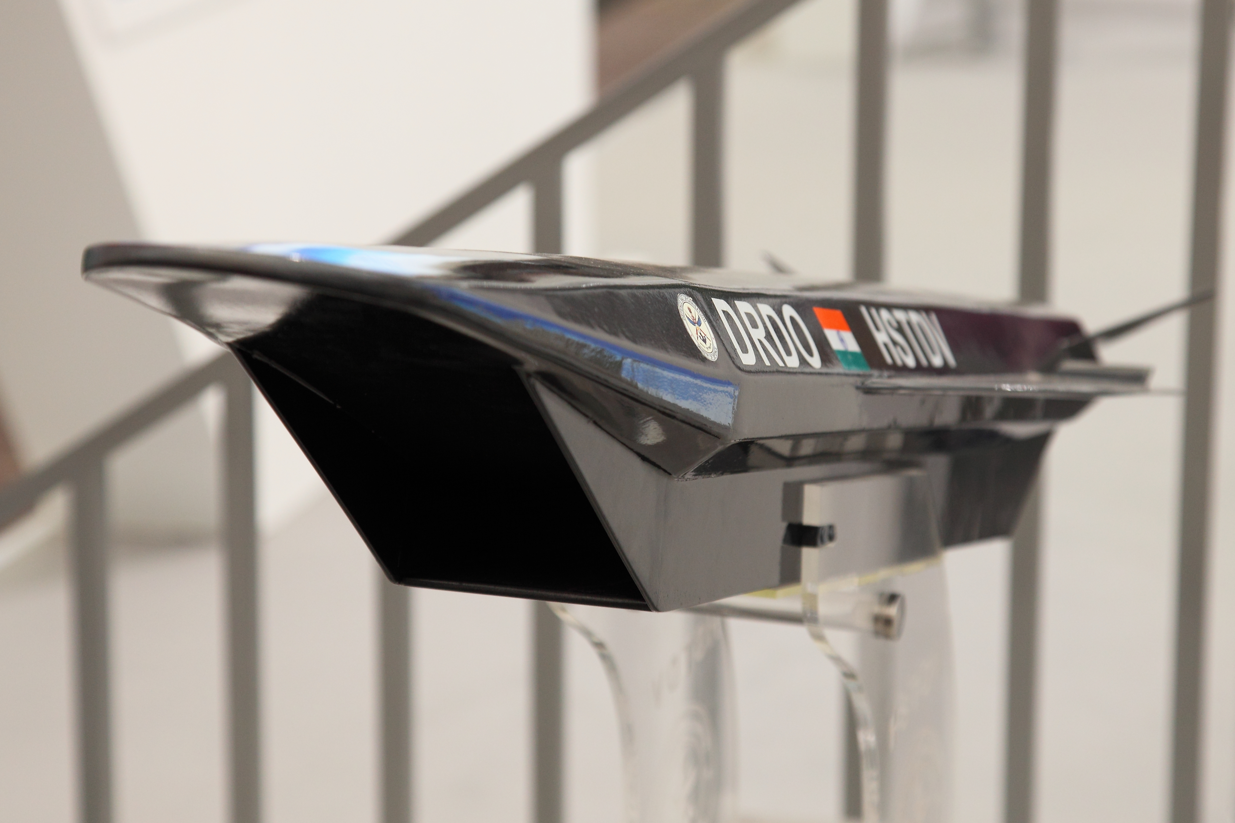 ILA Berlin Air Show 2012; HSTDV: Hypersonic Technology Demonstrator Vehicle technical specifications: flight mach number - 6-7 flight altitude - 30-35 km flight duration - 20 s length - 5.6 m width - 0.8 m weight - 1 t launch option - solid booster salient features: scramjet engine integrated hypercarbon fuel powered hypersonic vehicle can carry a payload of 150 kg development towards futuristic hypersonic cruis missile